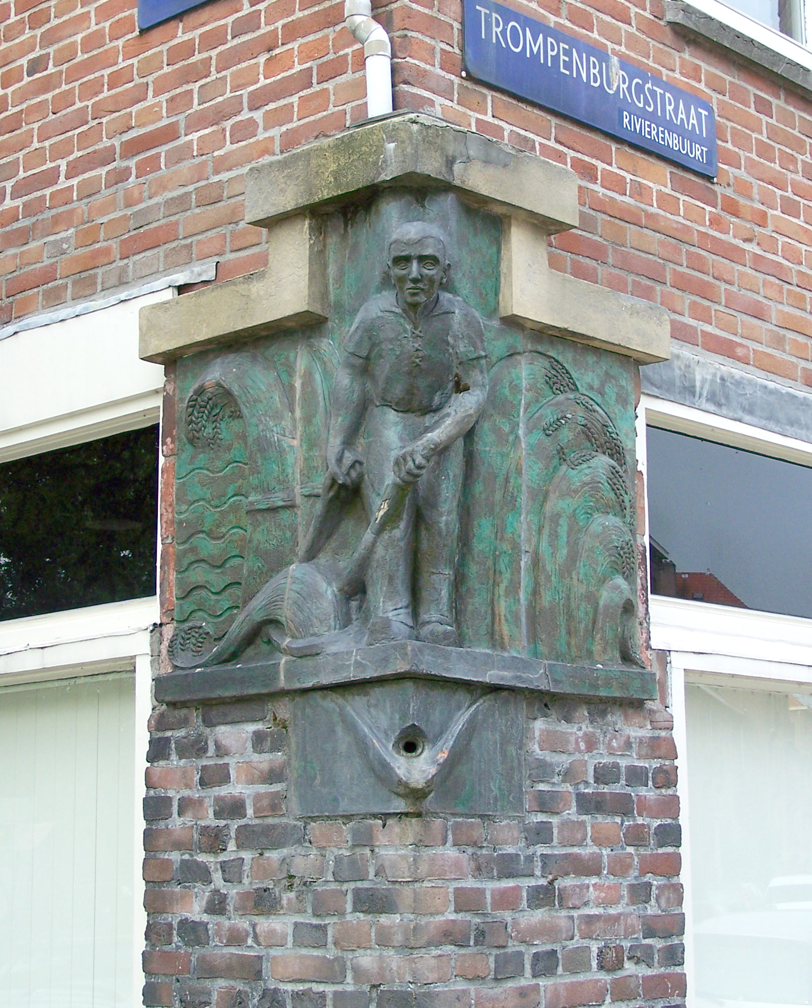 Relief of a man harvesting or plowing. Placed at the corner of the Gaaspstraat / Trompenburgstraat in Amsterdam between 1925/1928.